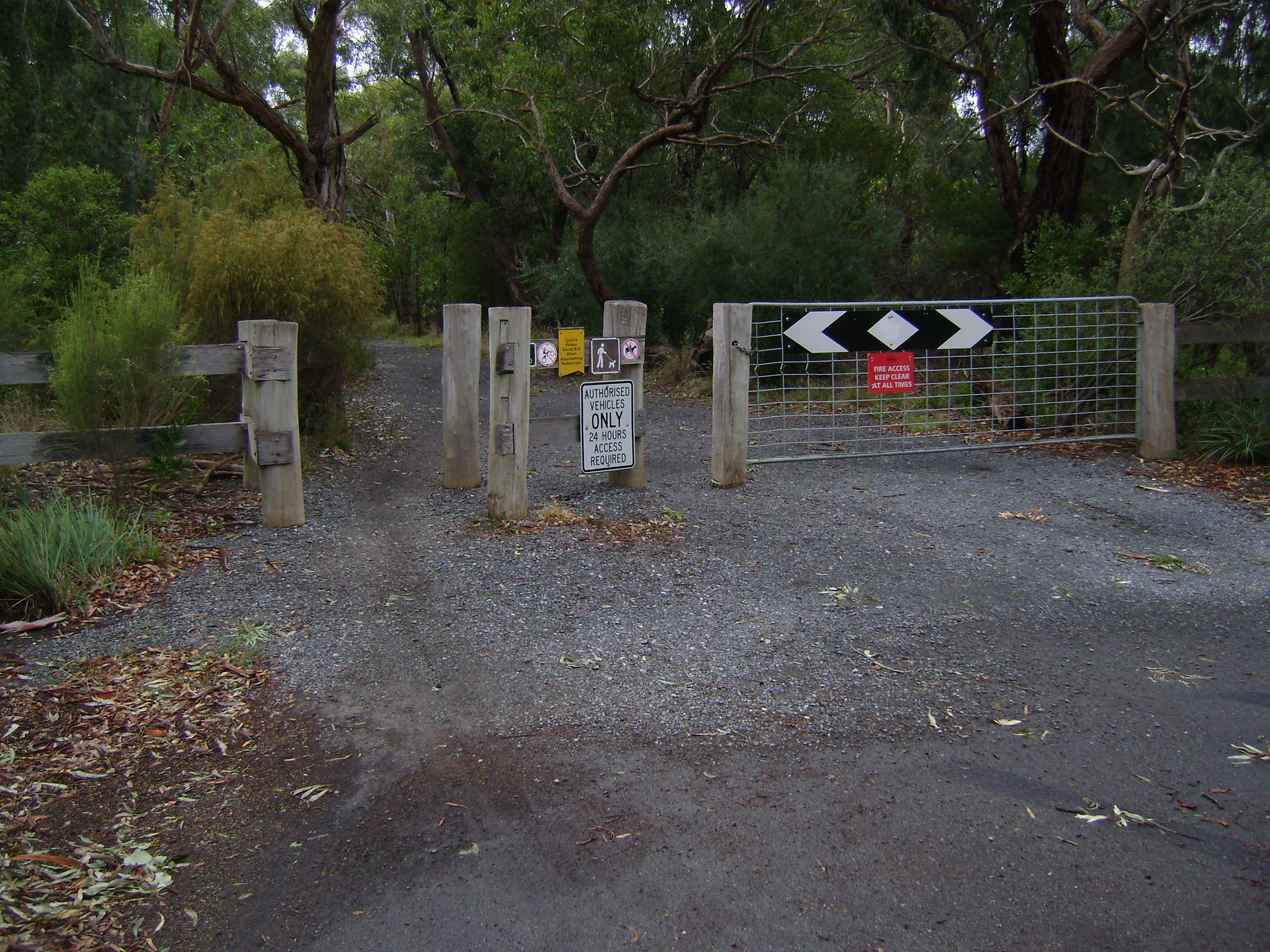 Entrance to Jell's Park from Shepherd's Lane Glen Waverley